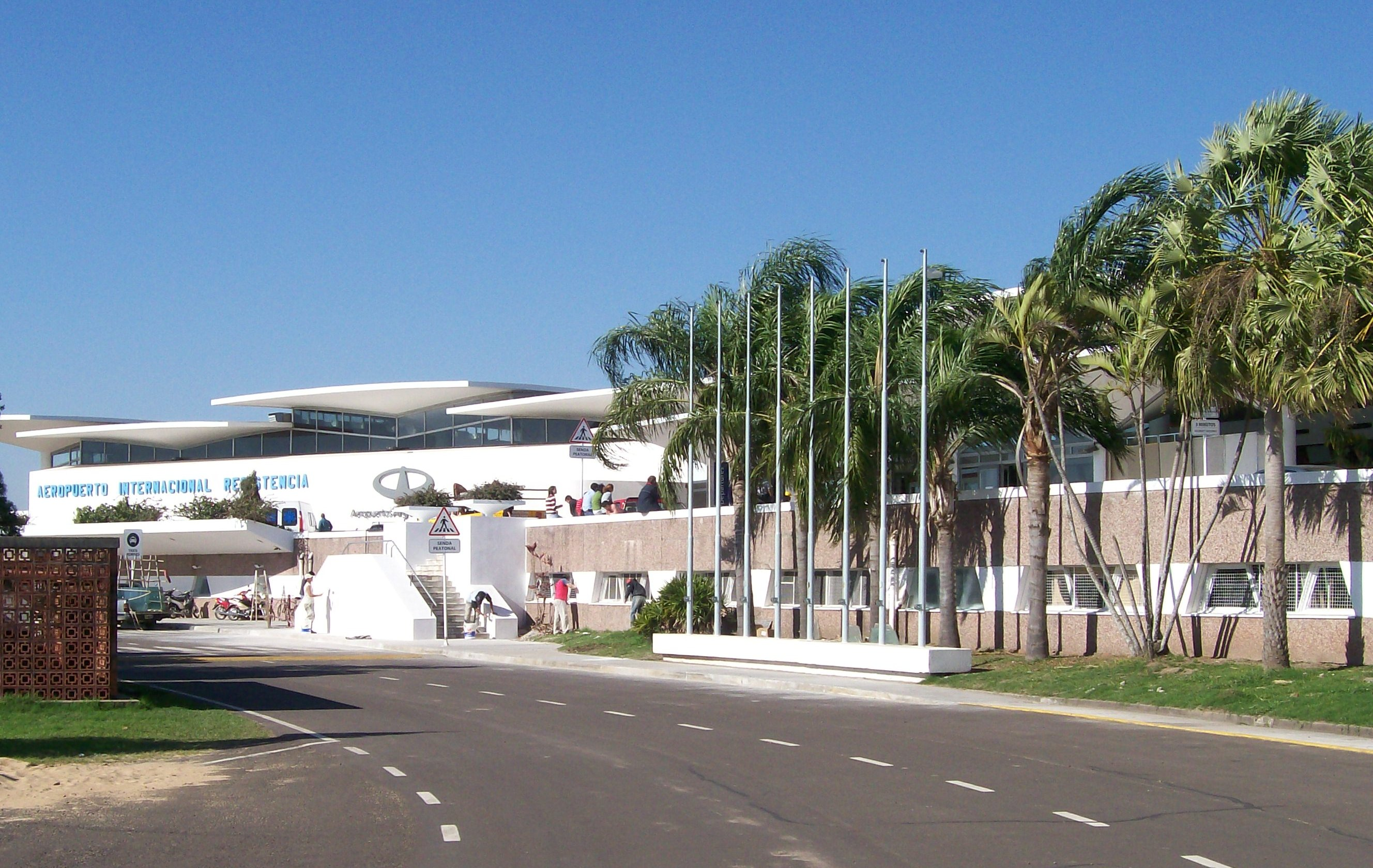 Passenger terminal of Resistencia International Airport in Resistencia, Chaco, Argentina. Taken from the parking entry. Besides legend "Aeropuerto Internacional Resistencia" you can see Aeropuertos Argentina 2000 logo. Aeropuertos Argentina 2000 is the company that manages this airport.